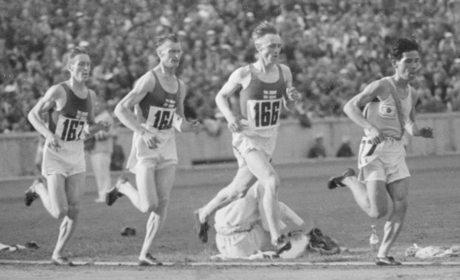 Competitors in action during the 10,000 meters event at the 1936 Olympic Games in Berlin. Ilmari Salminen (2nd left) of Finland won the gold medal, followed by teammates Arvo Askola (3rd left) and Volmari iso-Hollo (1st left), Kohei Murakoso of Japan (1st right)